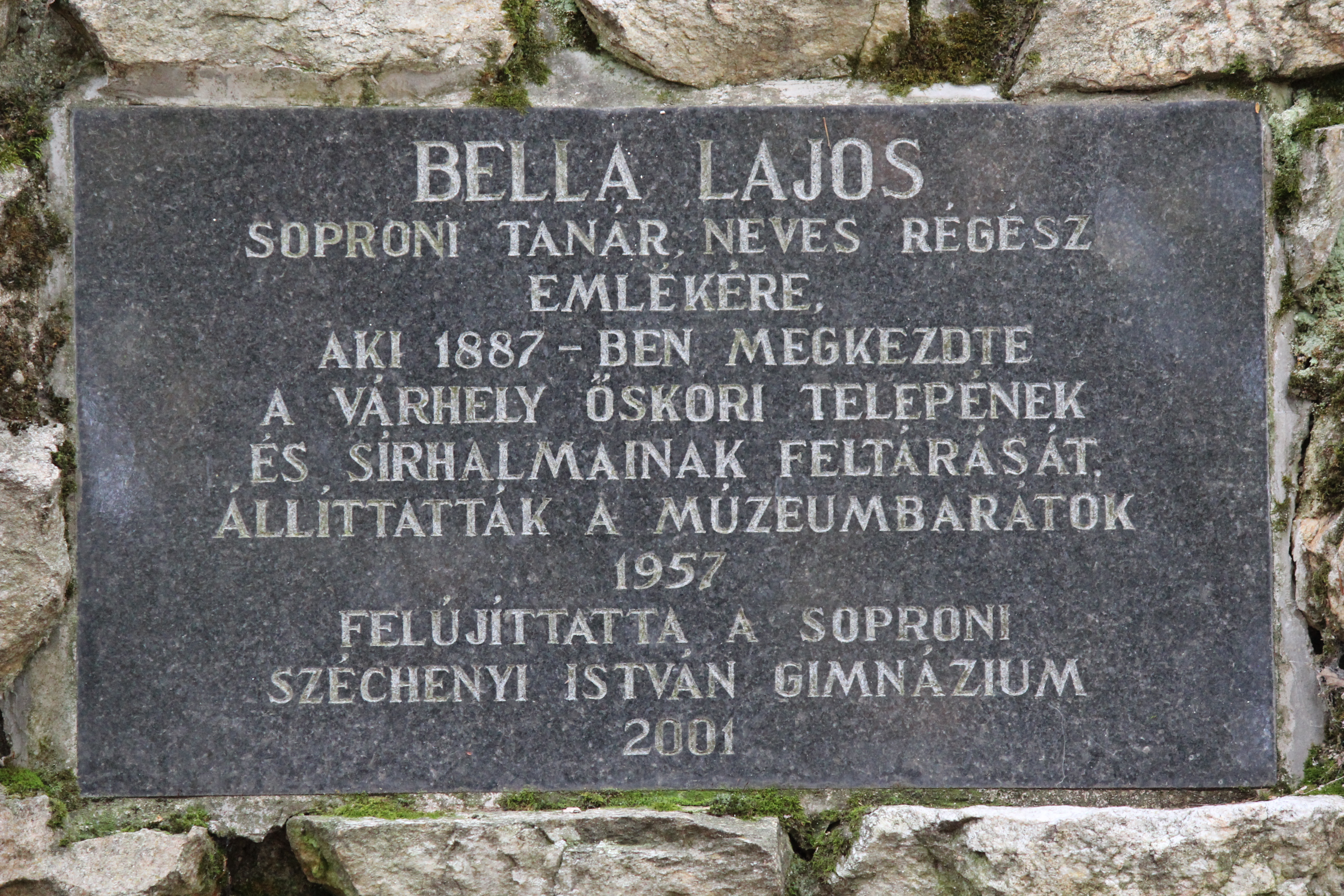 Monument of Bella Lajos on Várhely (Sopron, Hungary), detail. Sculptor Ernő Szakál.